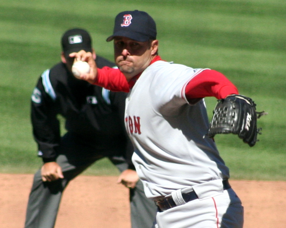 Tim Wakefield throwing a knuckleball. This was taken with a 300mm Canon telephoto lens from 7th row seats, behind home plate, at Camden Yards. Somebody posted to a local mailing list offering three tickets, without explanation. I just got lucky.